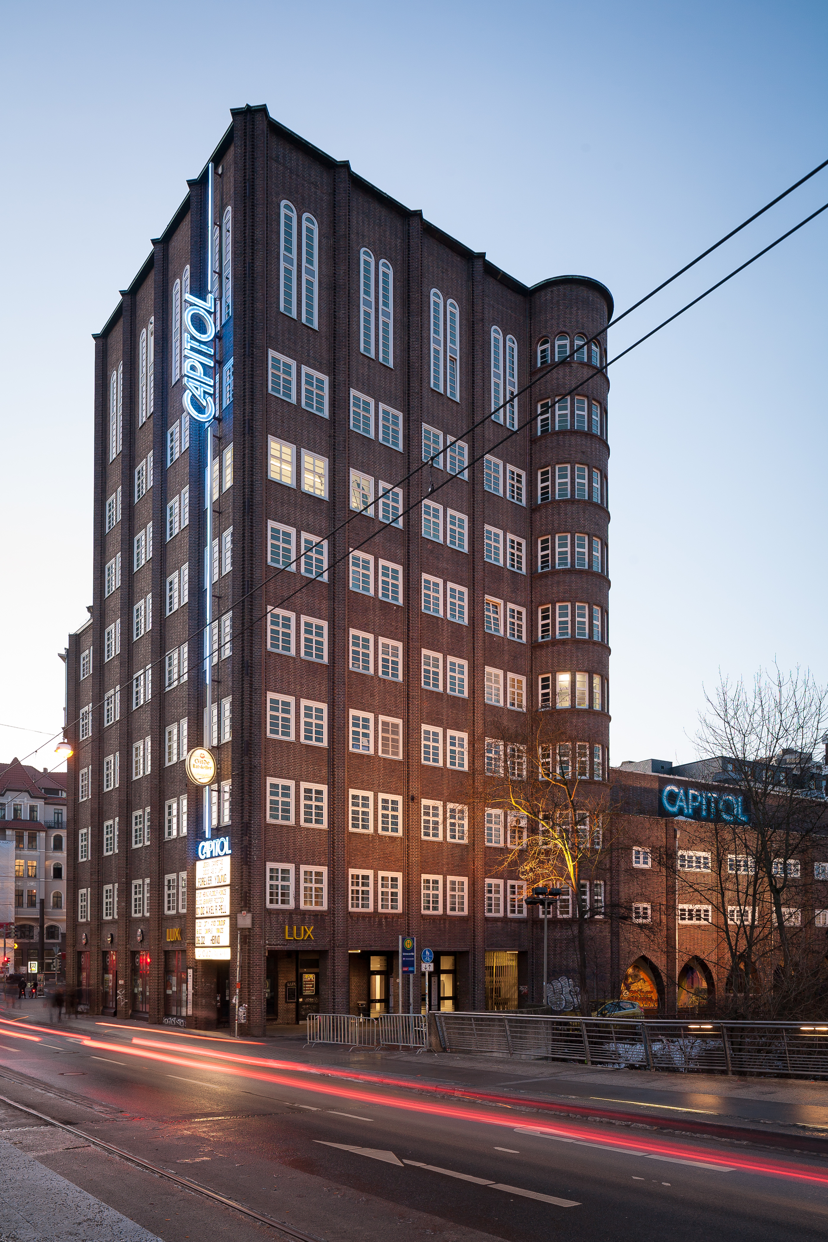 "Capitol" high-rise at Schwarzer Baer square located in Linden district, Hanover, Germany.